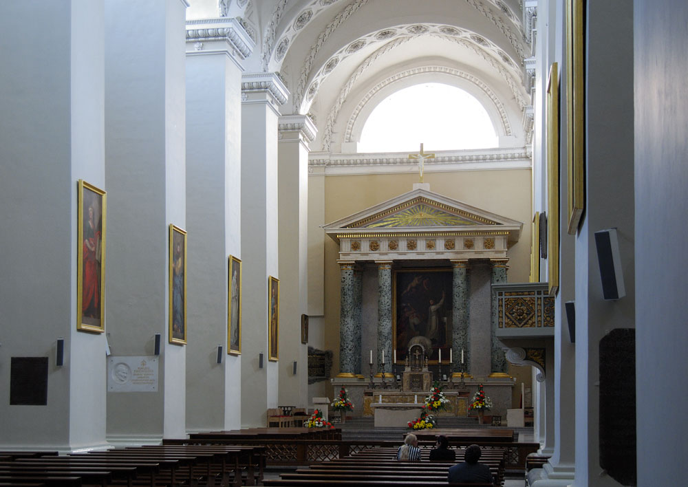 Vilnius Cathedral interior